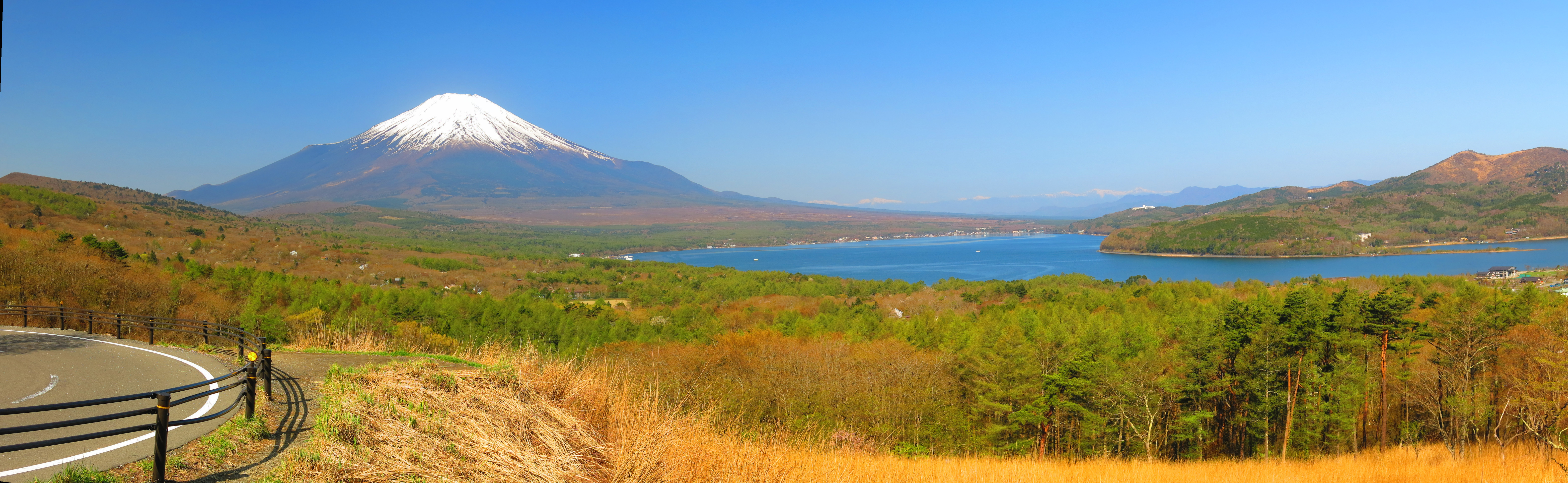 Mount Fuji and Lake Yamanaka. Taken from Yamanashi Prefectural Road 730.